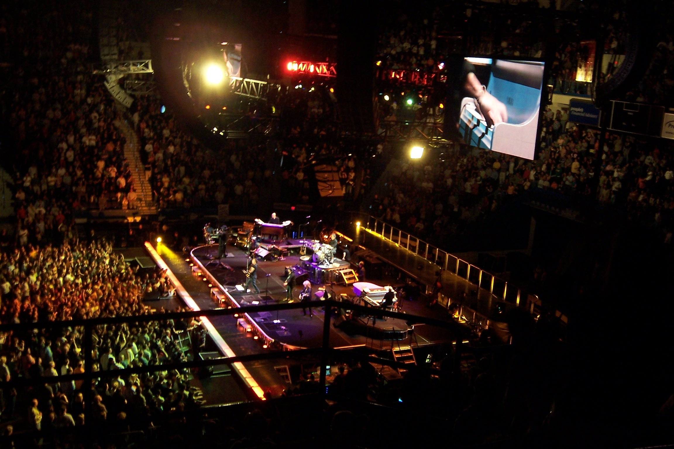 Bruce Springsteen and the E Street Band performing "She's the One" at the ex-Hartford Civic Center, April 24, 2009.